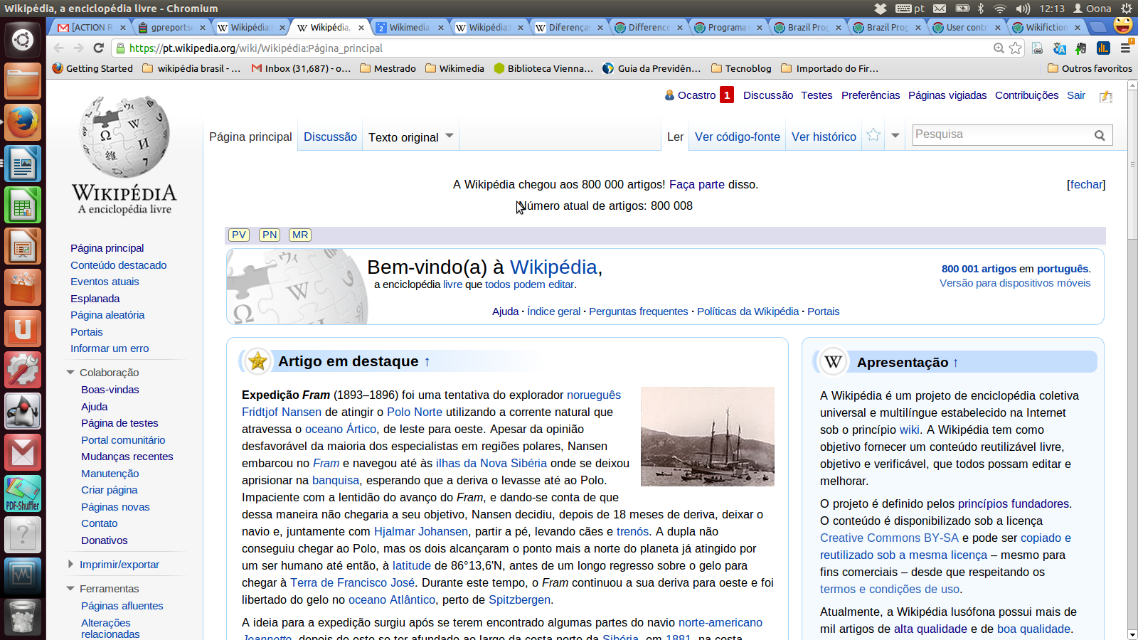 The Portuguese Wikipedia reached 800K articles